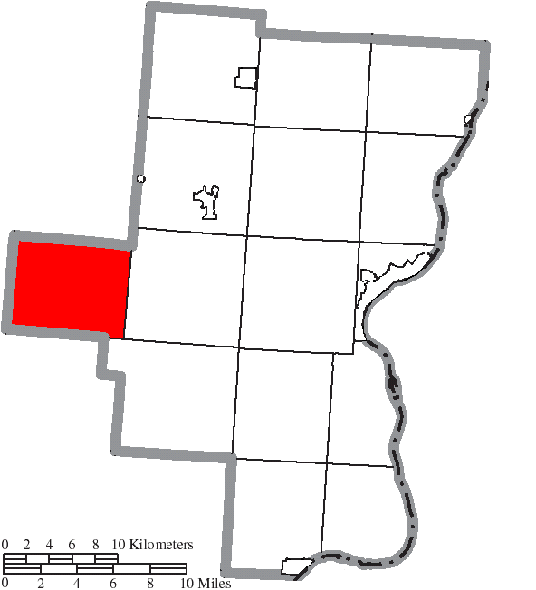 Map of the municipal and township boundaries of Gallia County, Ohio, United States, as of the 2000 census, with the location of Greenfield Township highlighted. Township borders are shown only in unincorporated areas in order to differentiate incorporated and unincorporated areas more clearly.